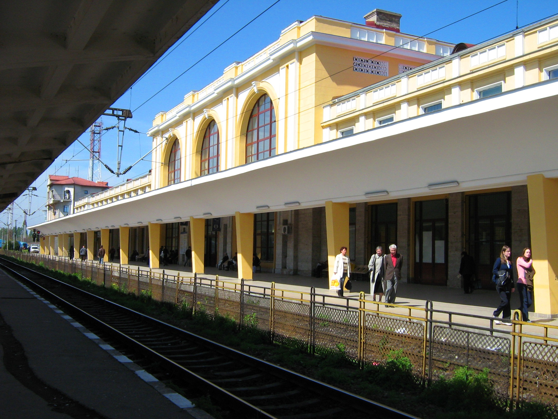 Ploiesti Sud railway station.